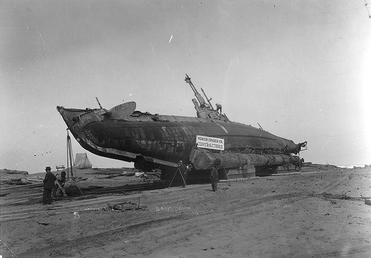 USS H-3 (Submarine # 30) Being moved off Samoa Beach to Humboldt Bay, near Eureka, California on 6 April 1917, during salvage operations by the Mercer-Fraser Company. Note the rollers and wooden runners below the log and timber structure that supported the submarine during the move. Photographed by the Freeman Art Company, Eureka. Original caption: "Photo # NH 53850 USS H-3 being moved from the beach during salvage, 6 April 1917" — removed caption